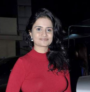 Actress Amruta Subhash at the screening of the film Balak Palak (2013).